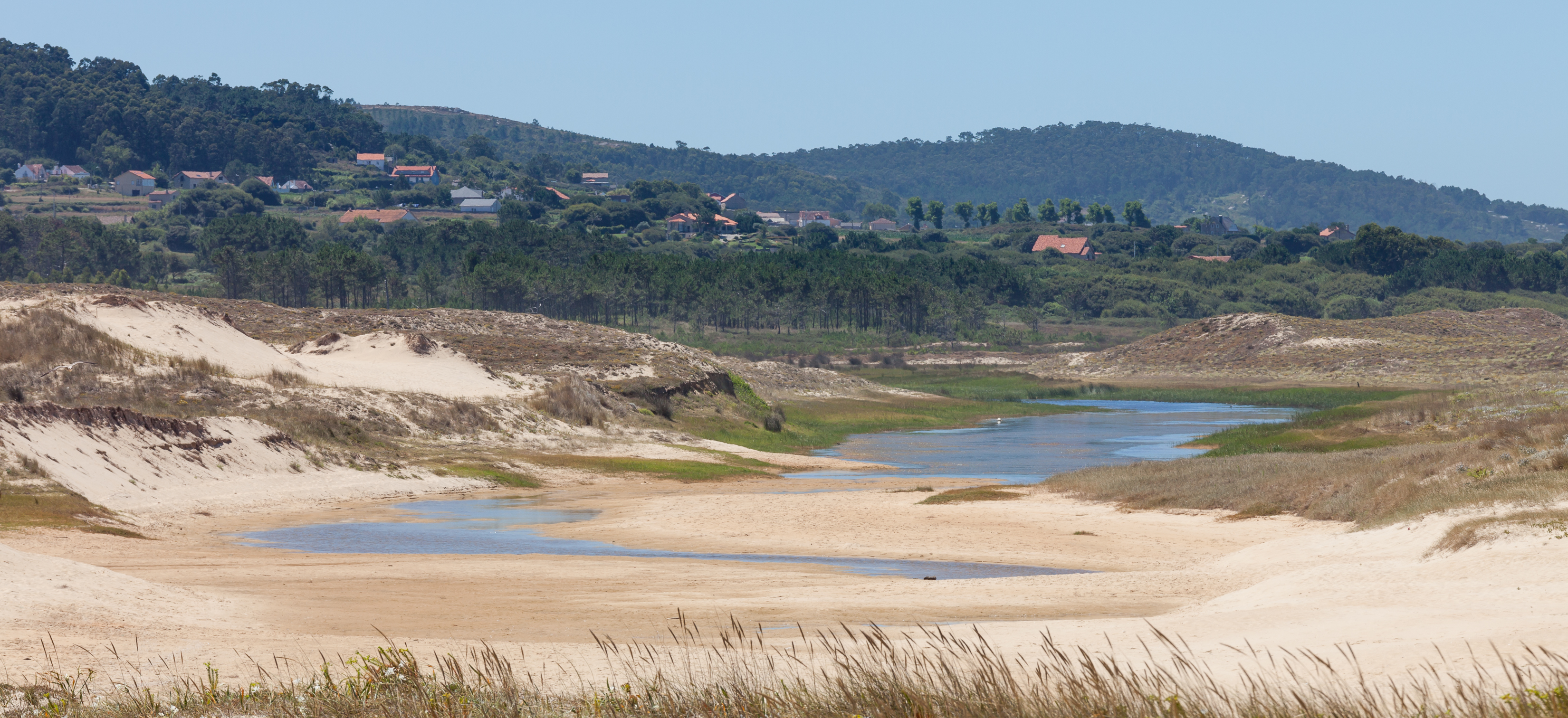 Lagoon of San Pedro de Muro. Xuño. Porto do Son. Galicia (Spain)